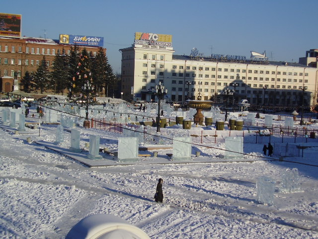 Lenin Square, Khabarovsk, Russia